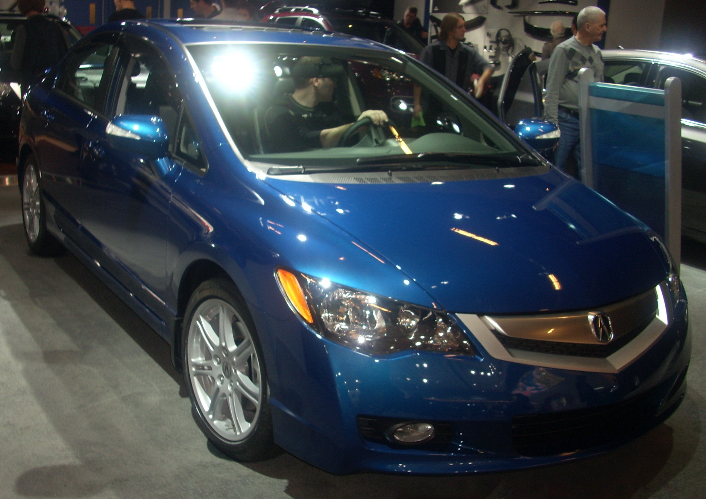 2010 Acura CSX Type-S photographed in Montreal, Quebec, Canada at the 2010 Montreal International Auto Show.